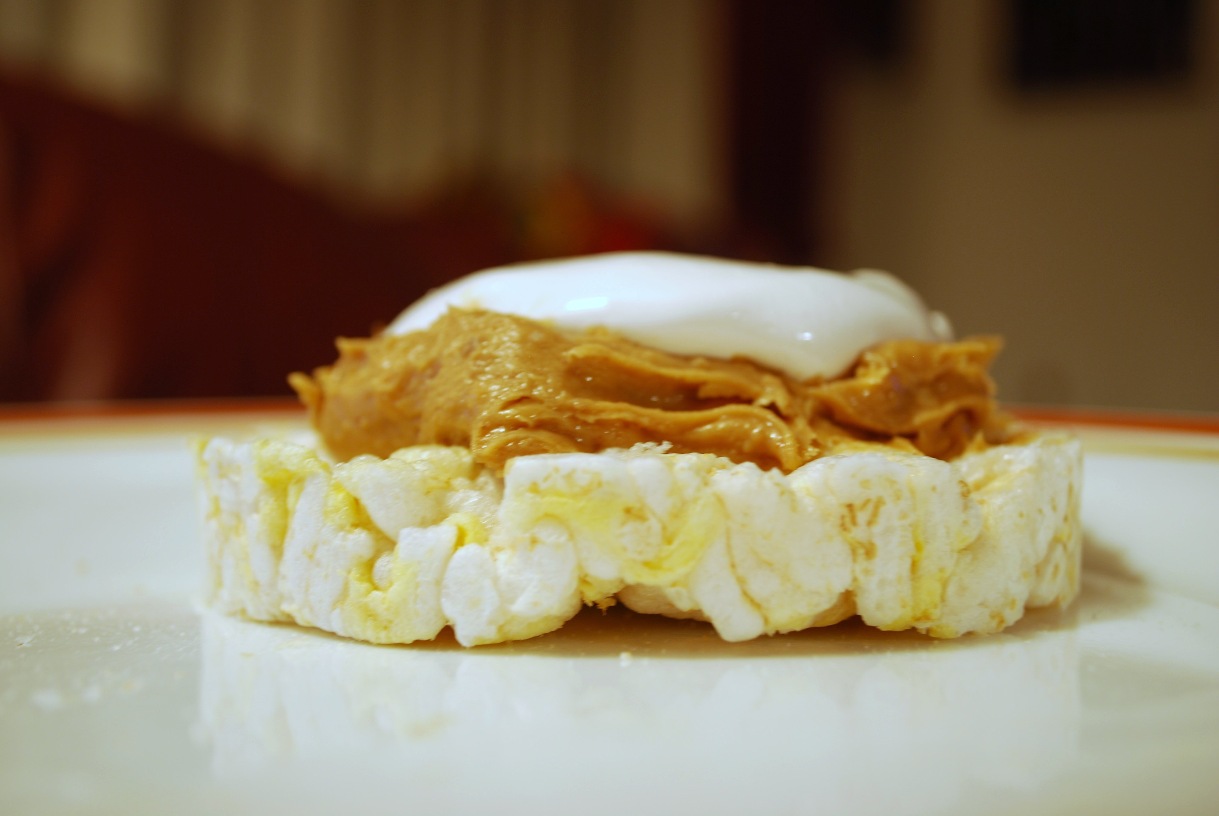 A rice cracker based fluffernutter